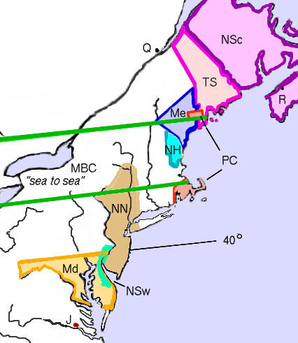 Map showing English colonial land grants in North America between 1621 and 1639.